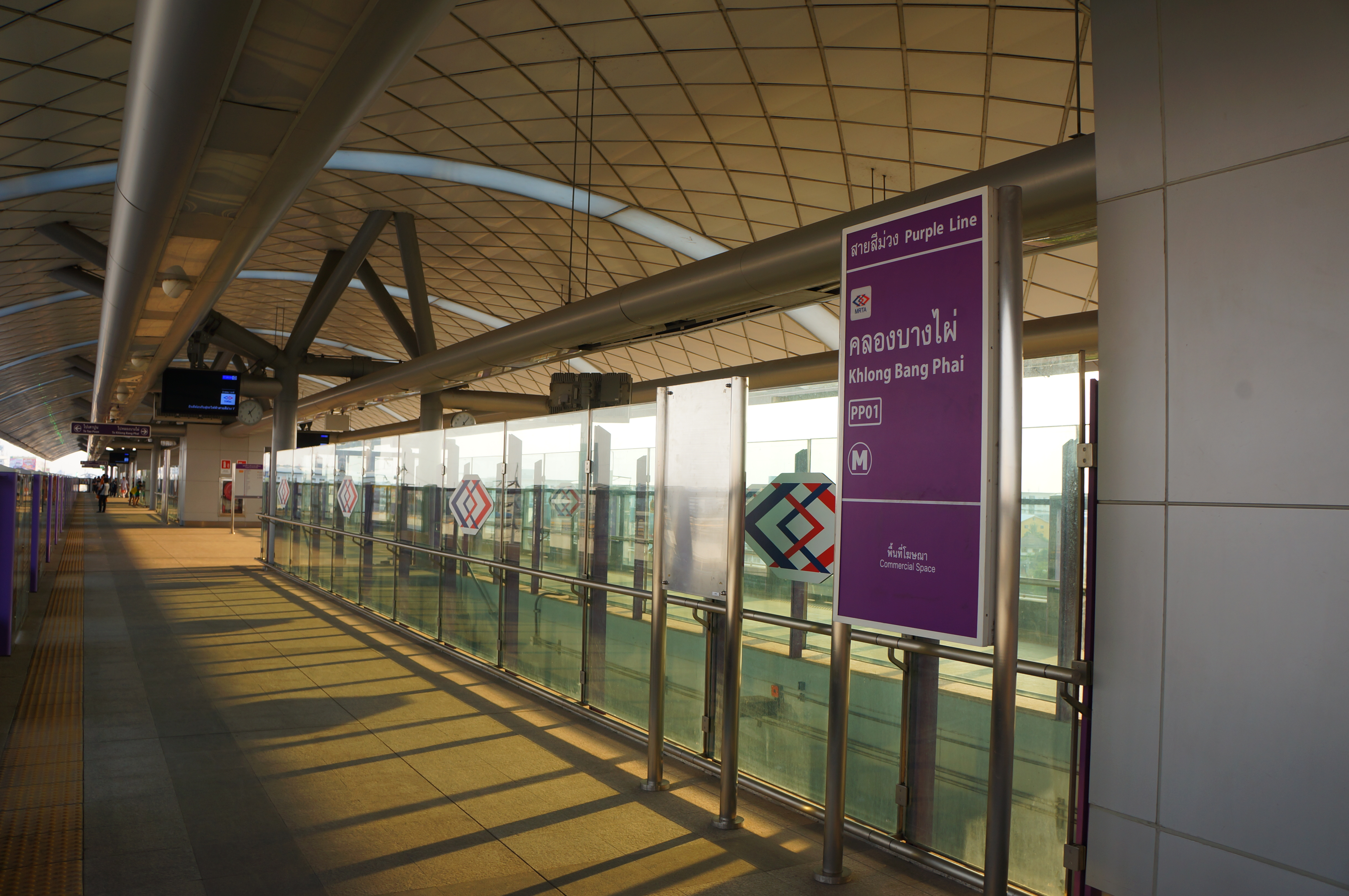 201701 Info board of Khlong Bang Phai Station